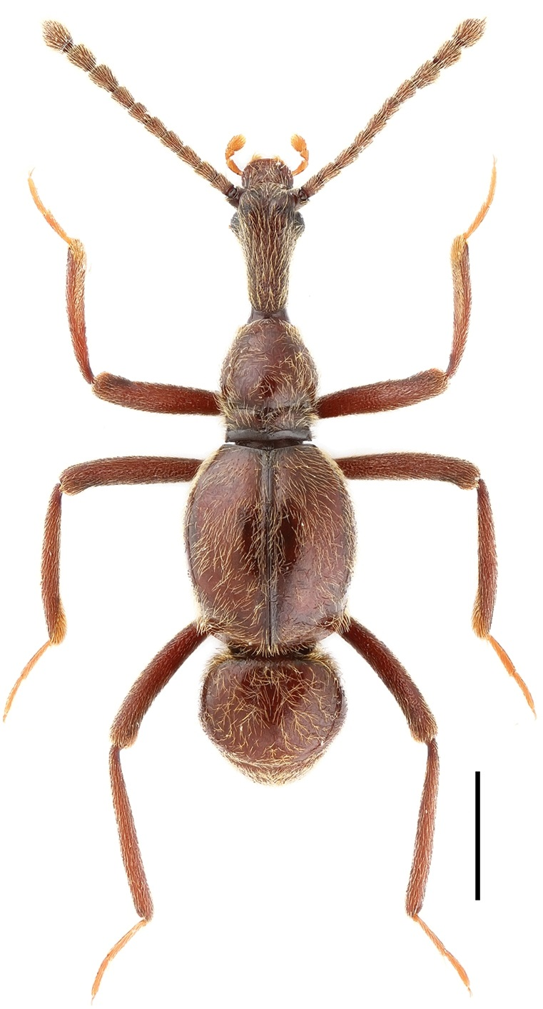 Dorsal habitus of Awas gigas ♂. Scale bar 1.0 mm.